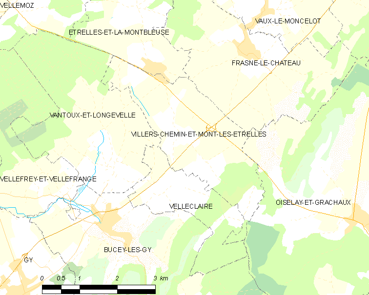 Map of French municipality